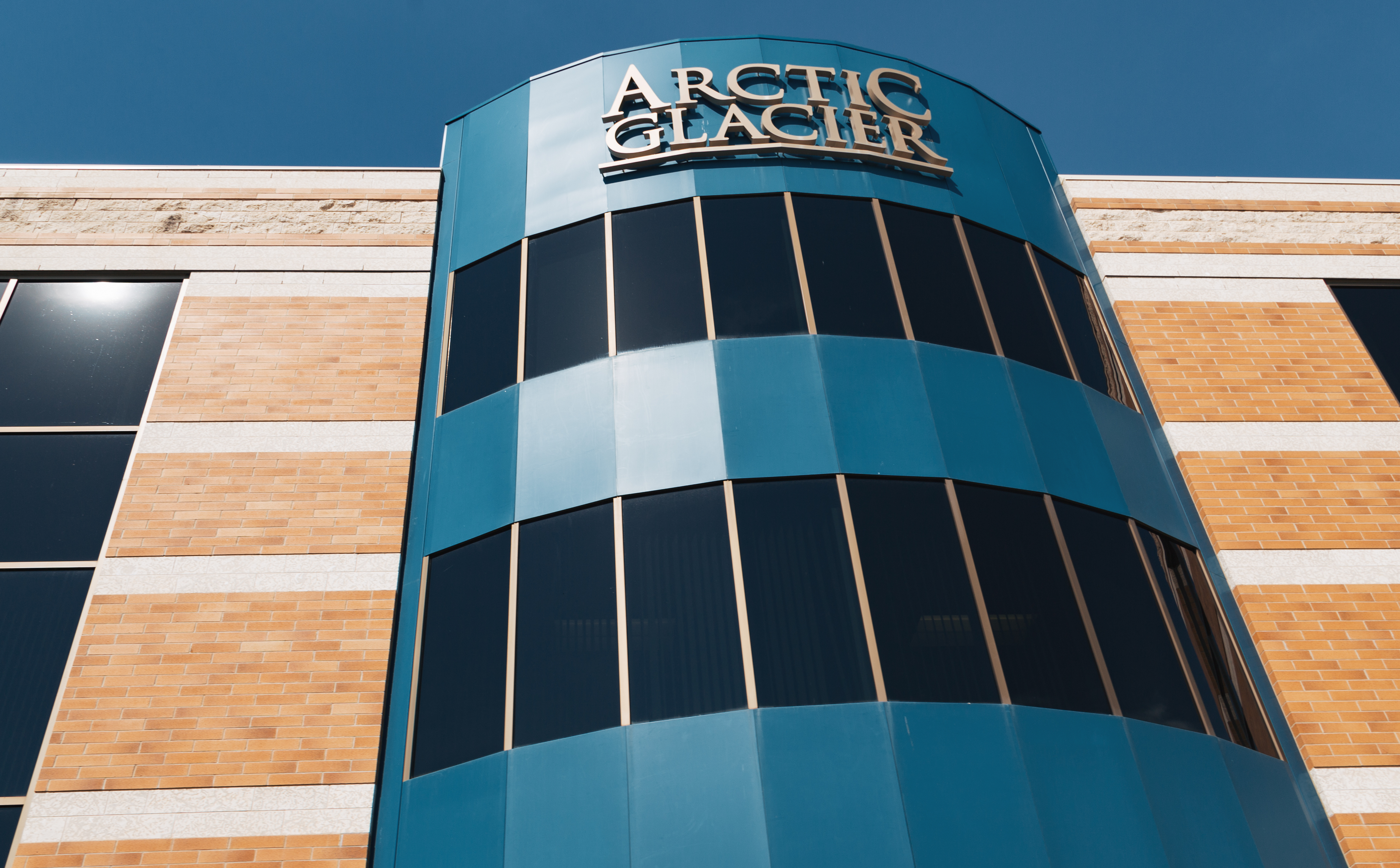 The Arctic Glacier headquarters office at 625 Henry Avenue in Winnipeg, Manitoba, Canada. Arctic Glacier is a producer and distributor of bagged and packaged ice.